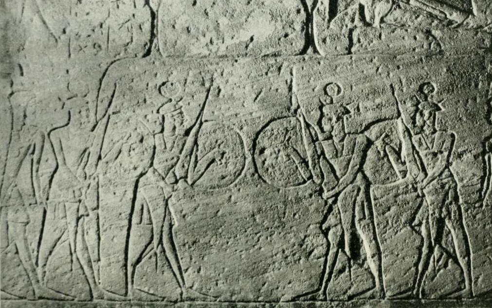 Sherden personal guards of Ramesses II, on a relief in the Sun Temple of Abu Simbel.